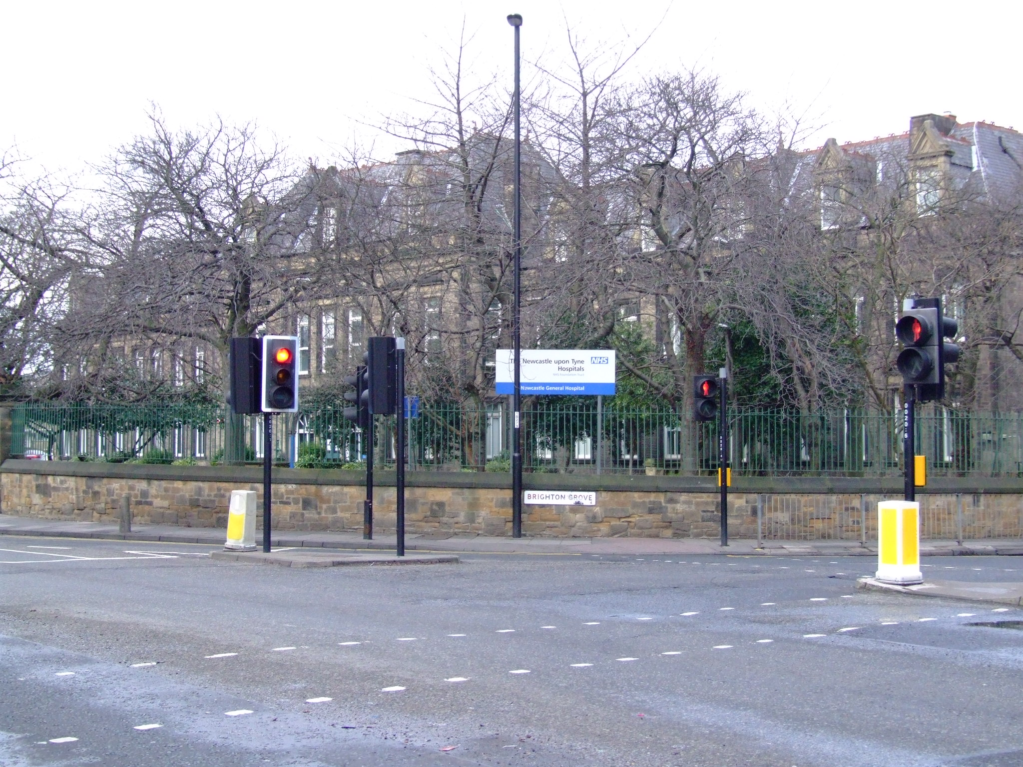 Westgate Road A186, looking west at the Brighton Grove intersection, in front of Newcastle General Hospital Acute services.